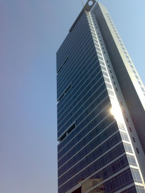 this shows the four seasons hotel in mumbai